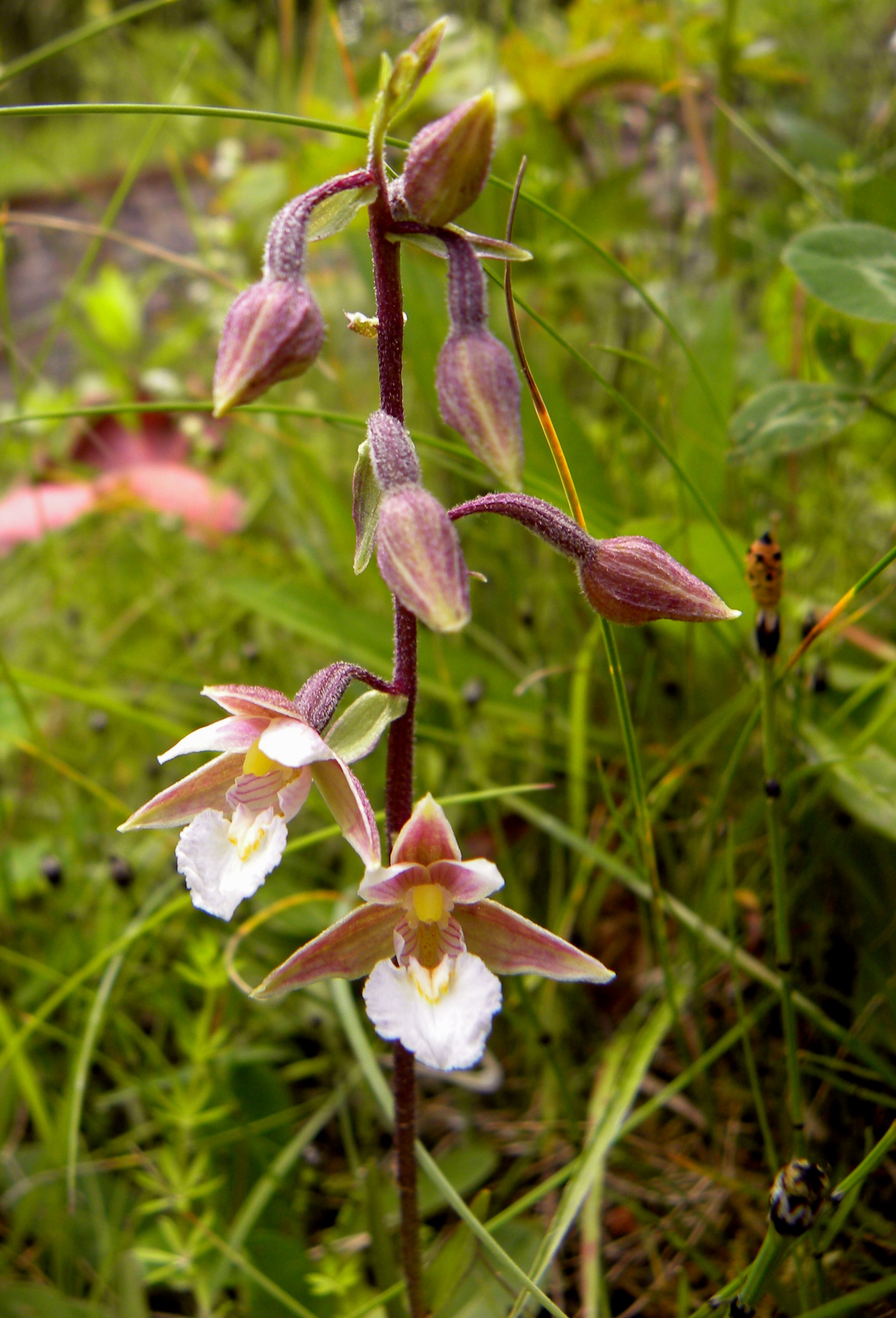 Marsh Helleborine (Epipactis palustris) at Thijsse's Hof, Netherlands